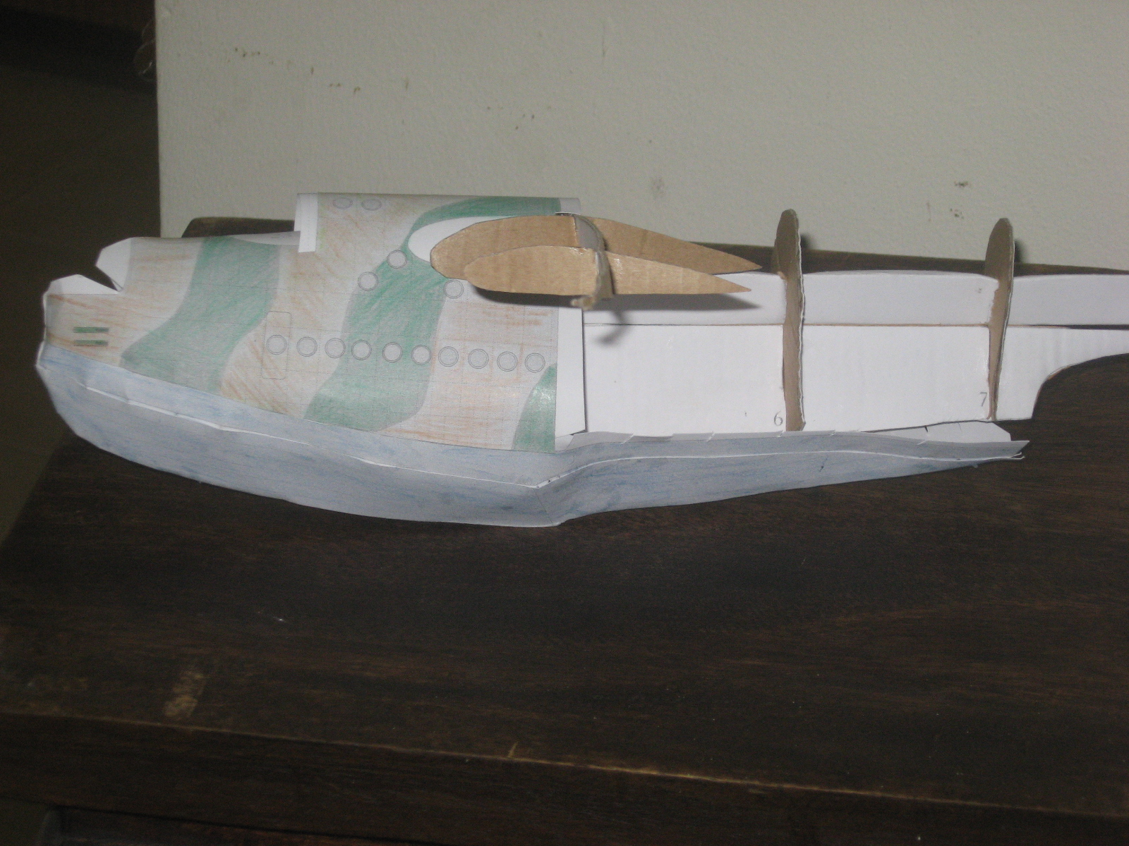 paper Craft Skeleton